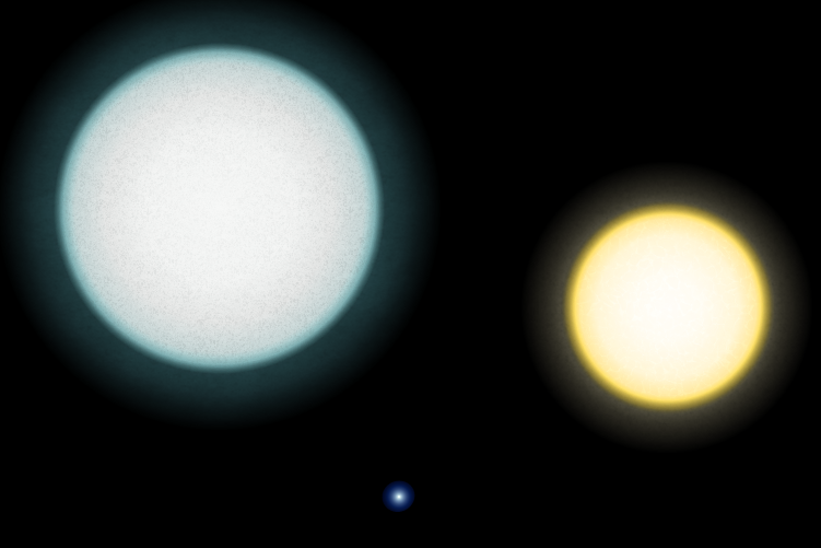 This graphic shows the relative dimensions of IK Pegasi A (left), IK Pegasi B (lower center) and the Sun.